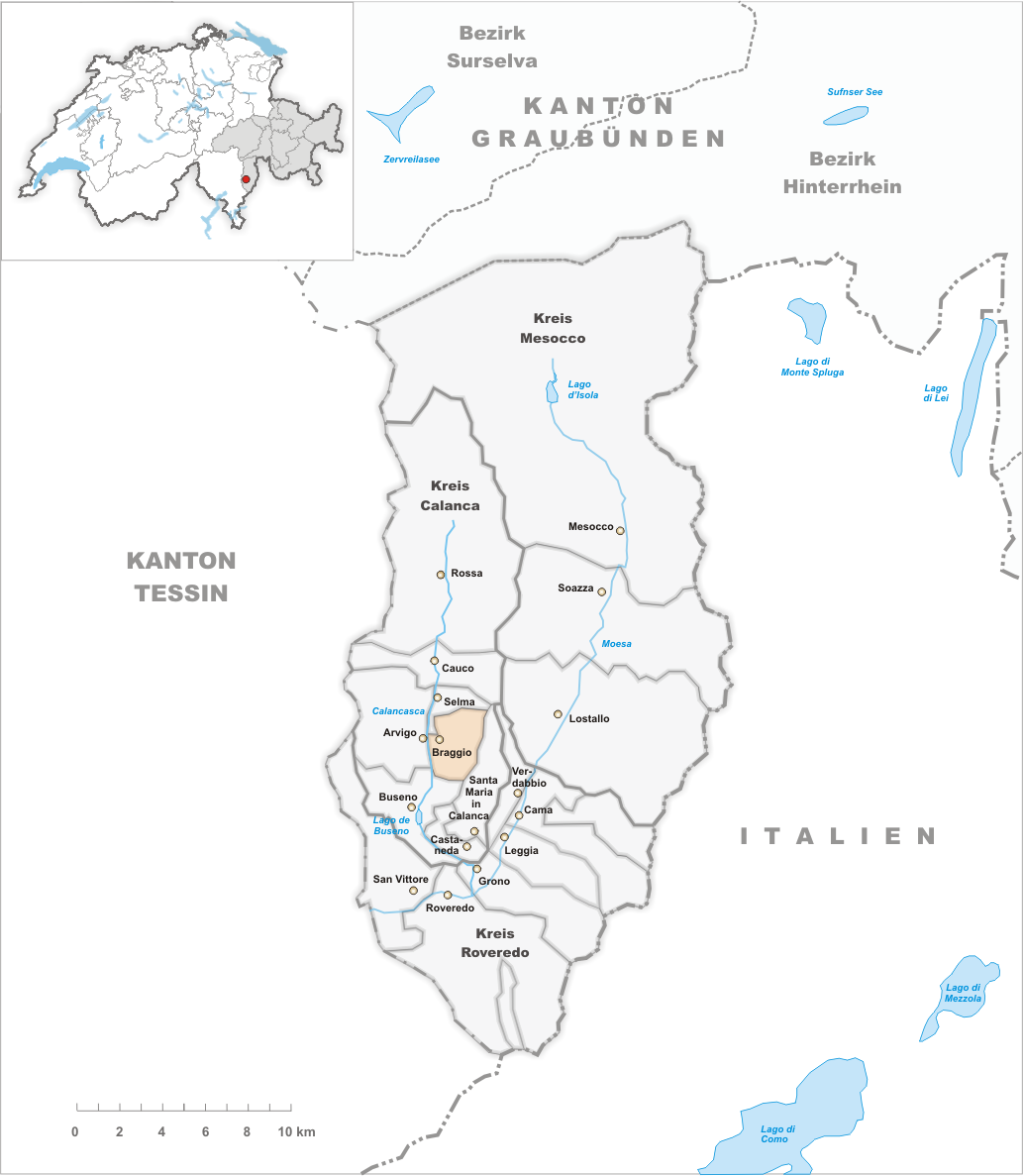 Municipality Braggio